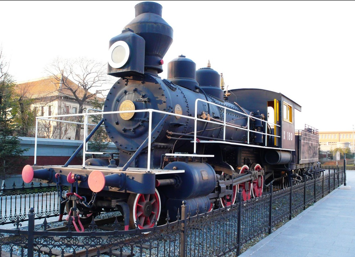 Steam locomotive at Changchun